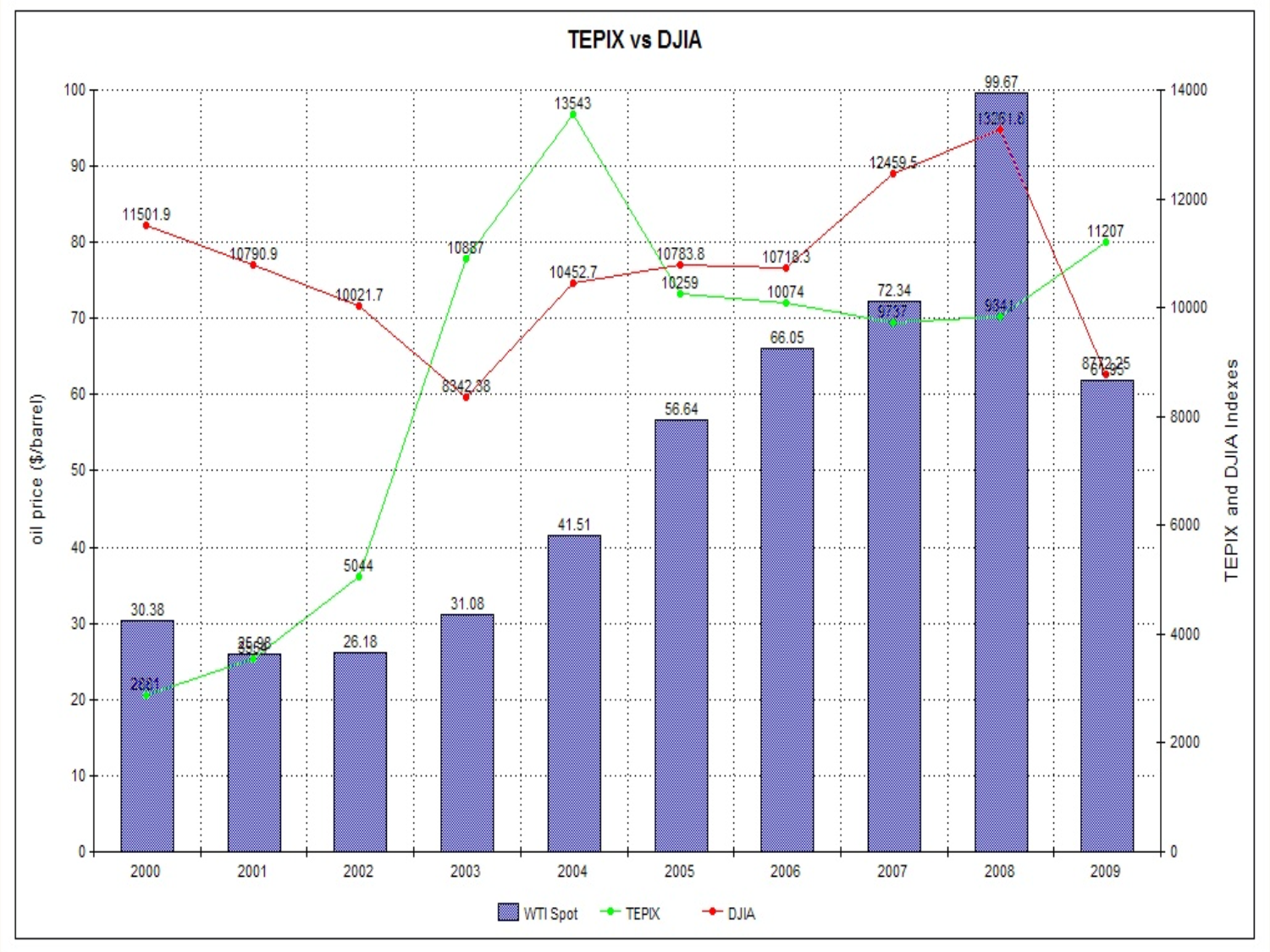 Dow Jones Industrial Average (DJIA) vs. TEPIX & Oil Prices (2000-2009). Sources for raw data: Econstats, Tehran Stock Exchange, U.S. Energy Information Administration (EIA).